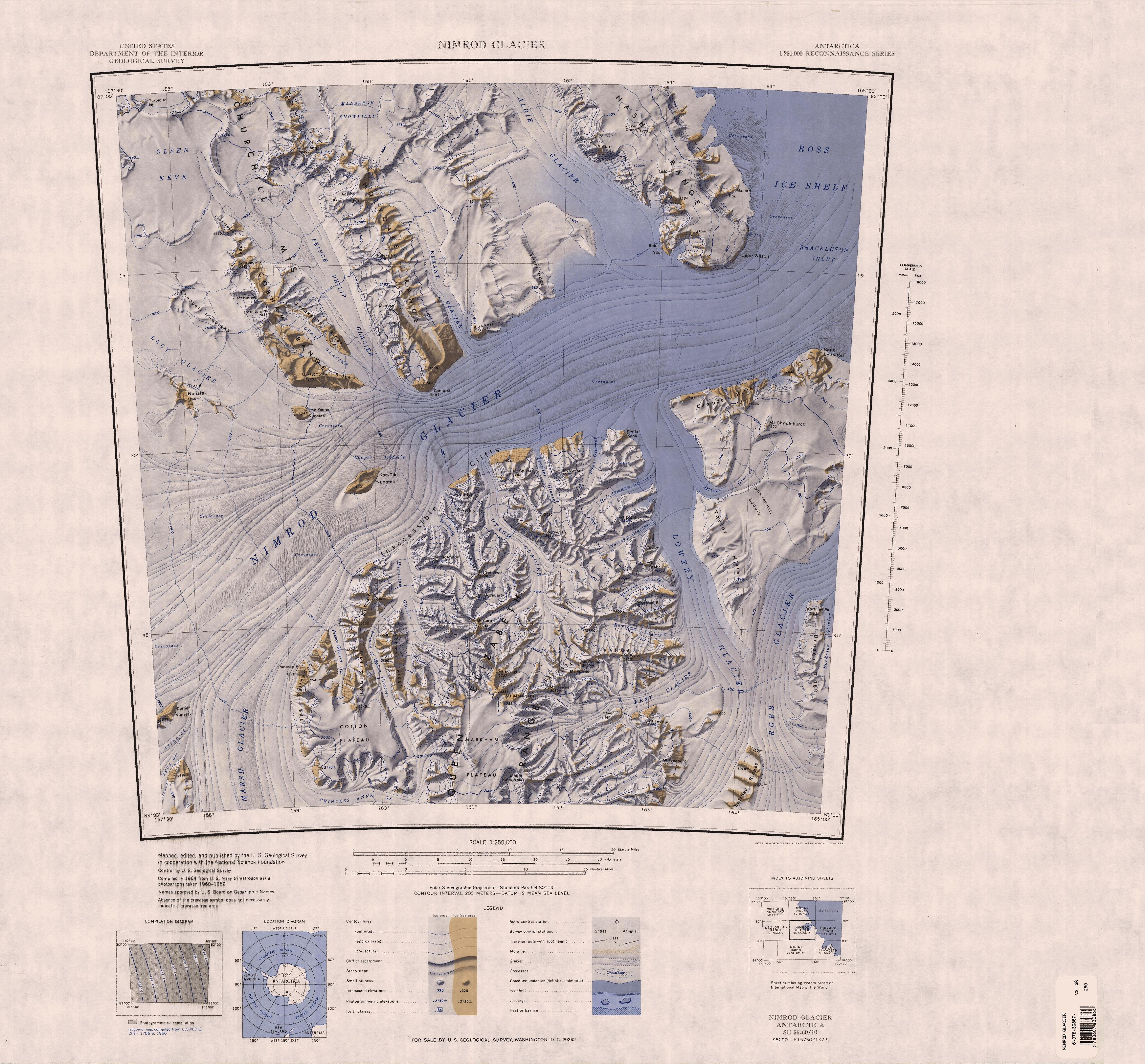 Map of Antarctica by the United States Antarctic Resource Center of the US Geological Society.